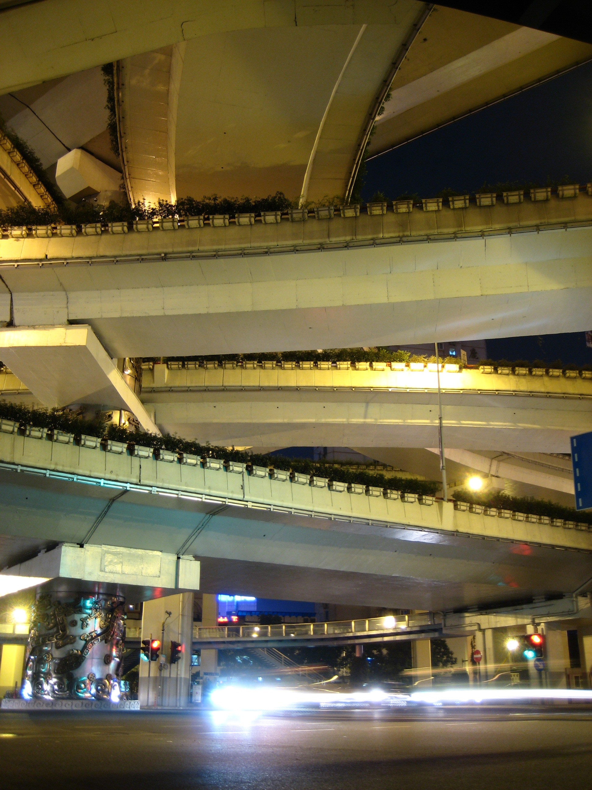 Interchange of Yan'an Road and North-South Highway in the center of Shanghai